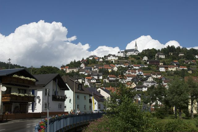 Wilhelmsthal